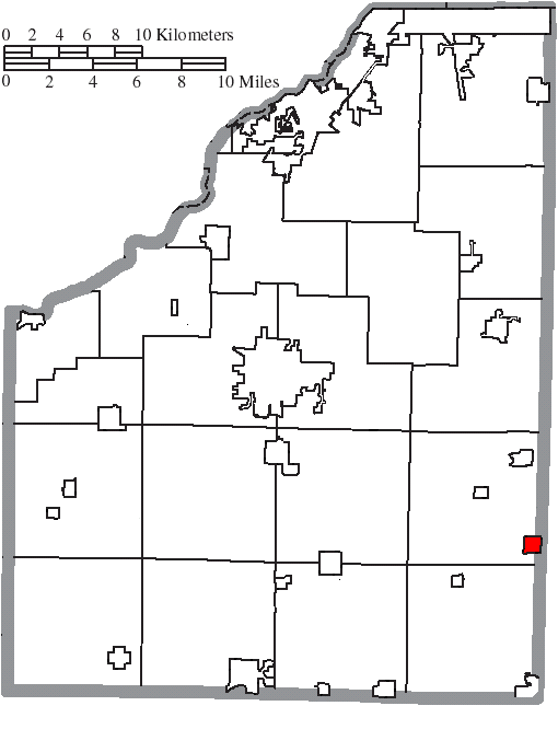 Map of the municipal and township boundaries of Wood County, Ohio, United States, as of the 2000 census, with the location of the village of Risingsun highlighted. Township borders are shown only in unincorporated areas in order to differentiate incorporated and unincorporated areas more clearly.